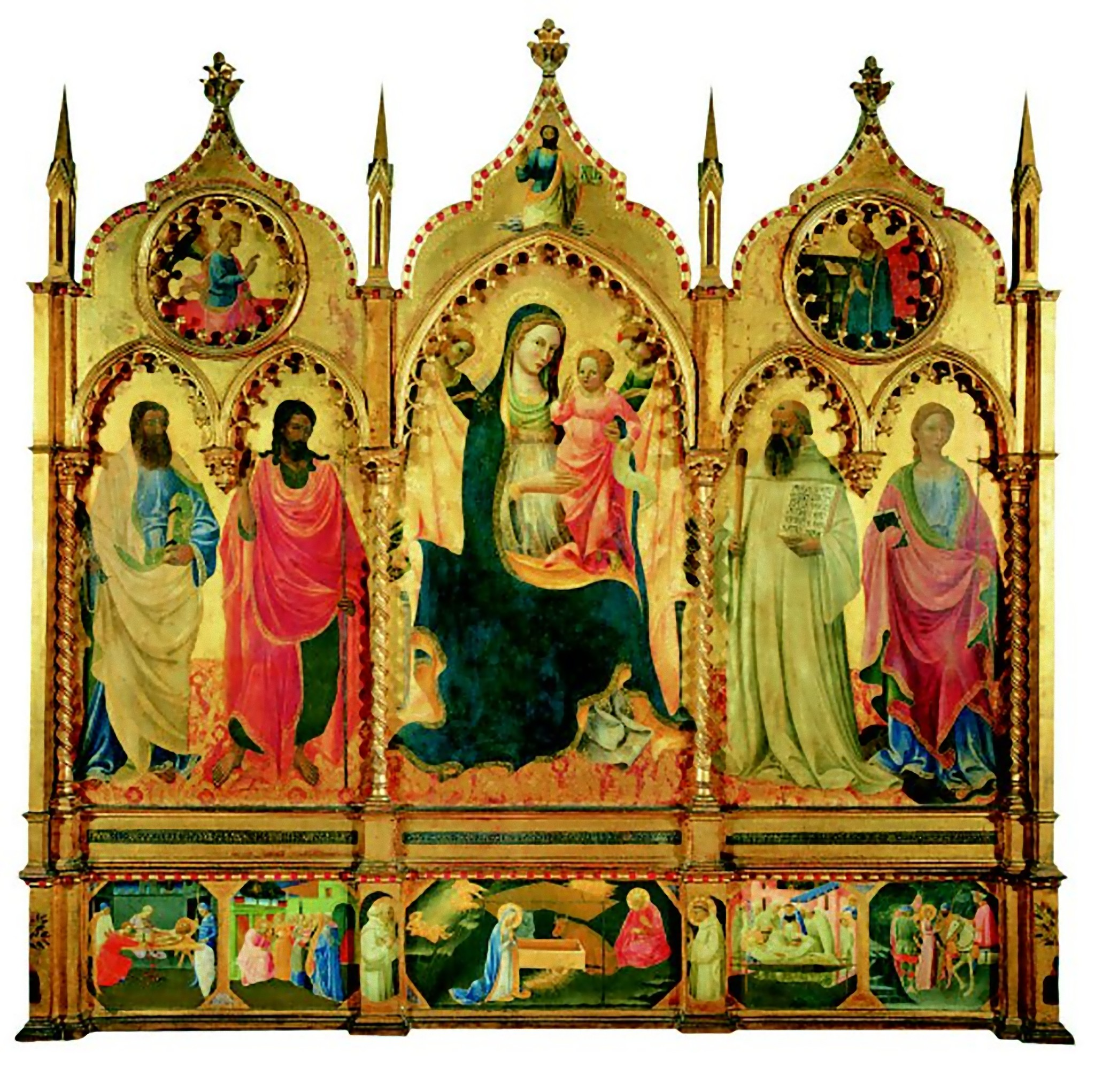 Madonna and Child among the saints Bartolomeo, Giovanni Battista, Benedetto and Margherita; Annunciation; predella with Stories of the Saints; Nativity. 1435